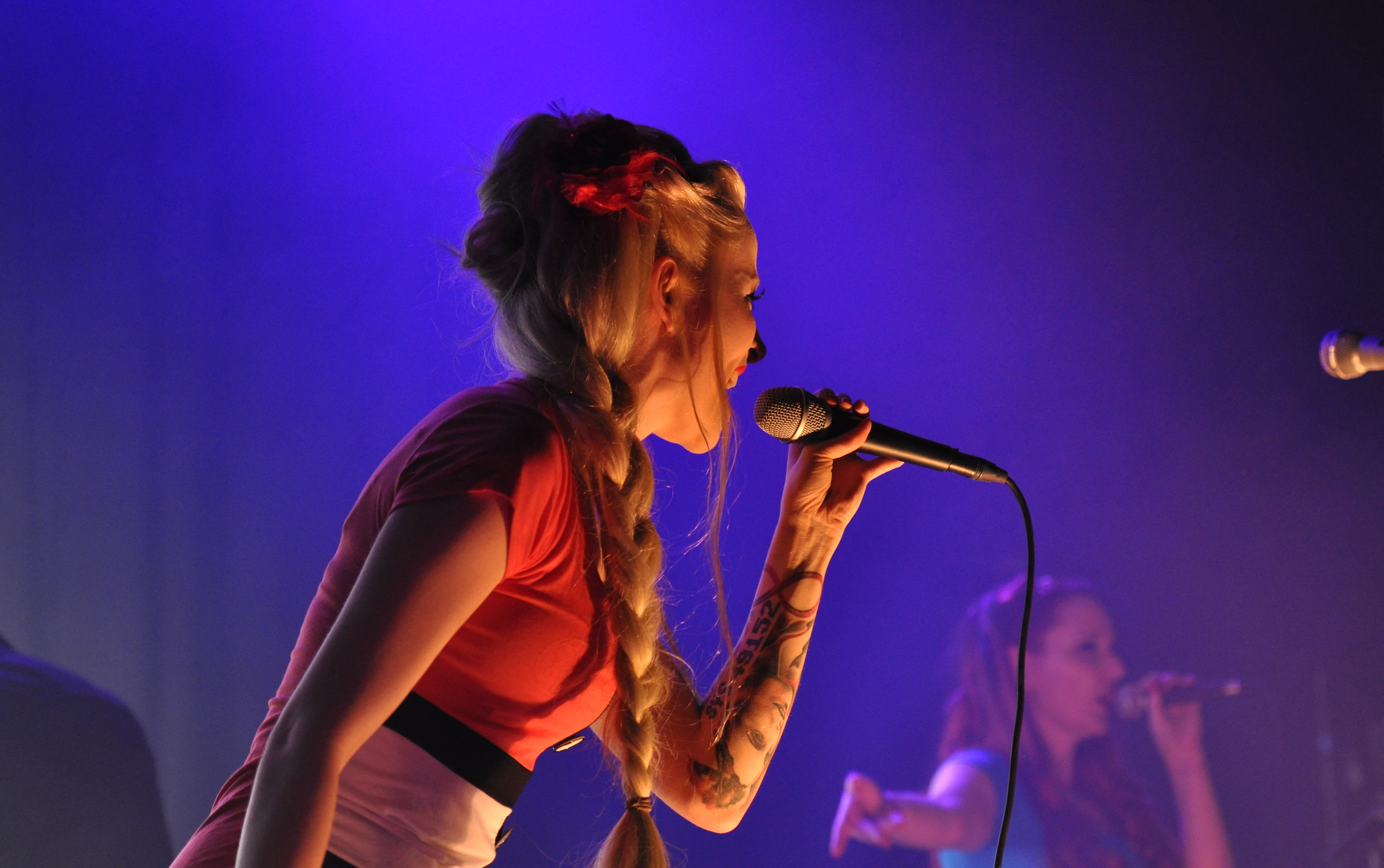 The German Band Welle:Erdball at e-tropolis 2013, Berlin